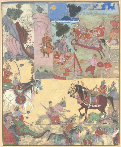 A COMPOSITE RAZMNAMA ILLUSTRATION MUGHAL, CIRCA 1616 Gouache heightened with gold on paper, Arjuna is killed by his son Babhnu Vahana in battle, composed of elements of at least six different miniatures from the same manuscript, glazed and framed, areas of wear Folio 11 x 9¼in. (27.9 x 23.5cm.)